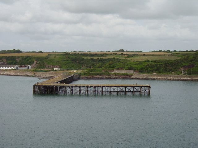 Disused pier. Does not appear to be connected with the oil installations, although it was once briefly owned by Gulf who bought it from the MoD in the 1980's. This disused pier at Newton Noyes near Milford Haven was built in the late 1930's as part of the Royal Naval Mine Depot, used to supply mines and other stores to Royal Navy ships. See 950596 and